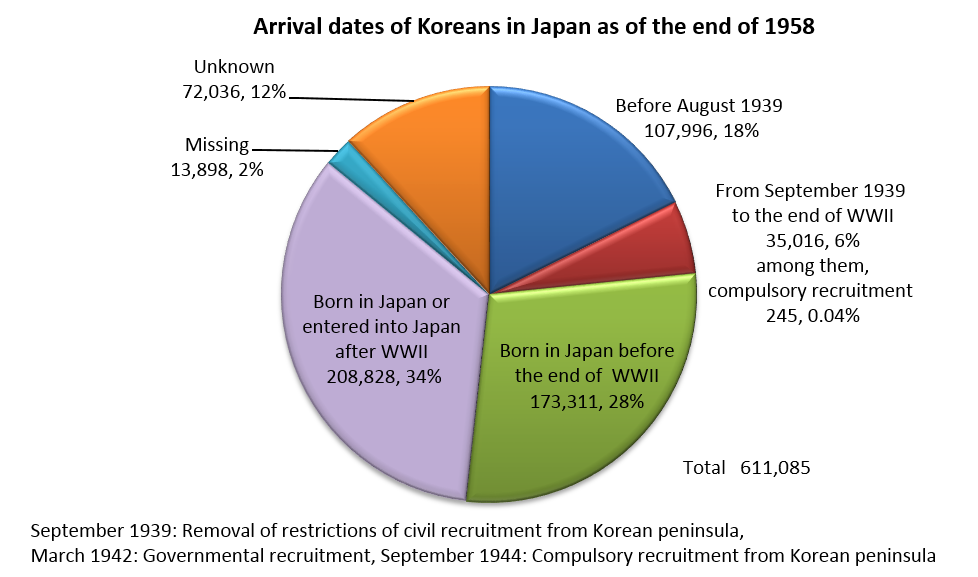 Arrival dates of Koreans in Japan as of the end of 1958